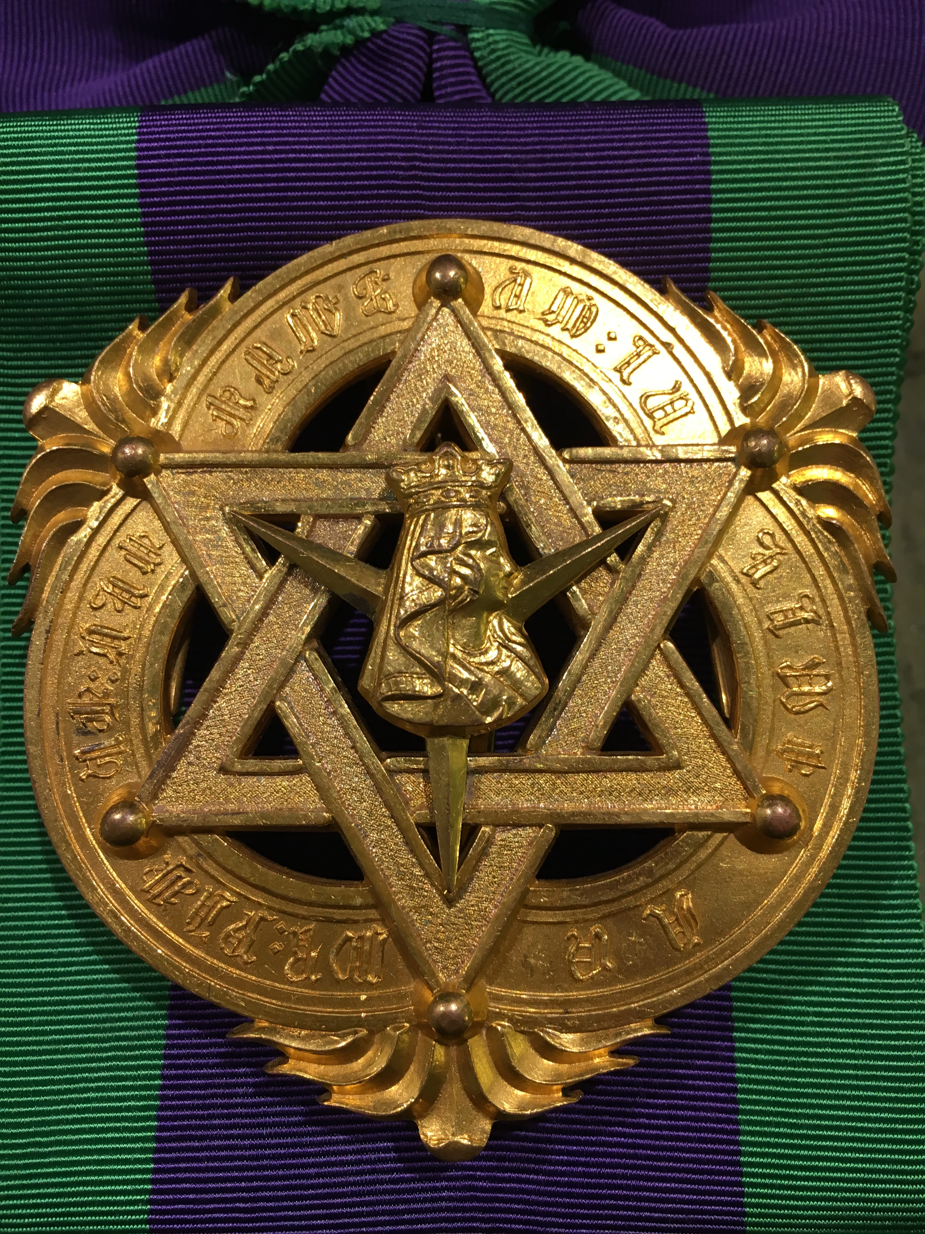 Grand Cross Star of the Order of the Queen of Sheba, Ethiopian Empire. Private Collection